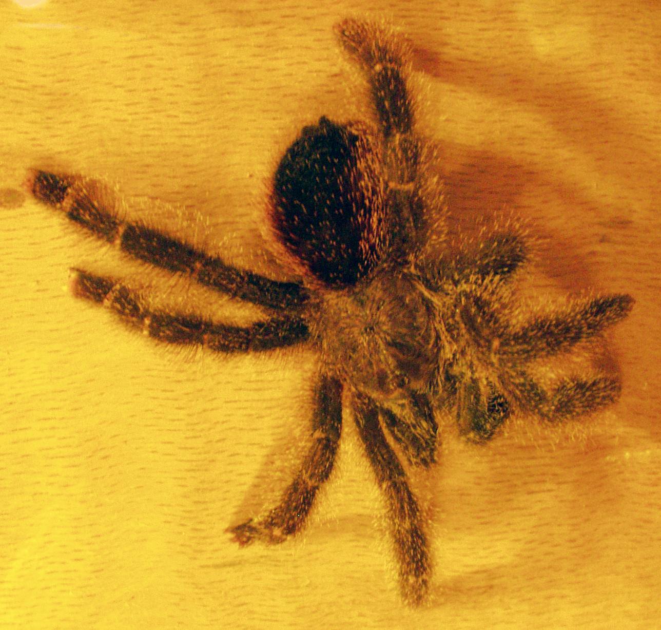 Member of the genus Avicularia, species variegata, formerly bicegoi. Body length nearly 6.5 cm. Leg span over 10 cm.